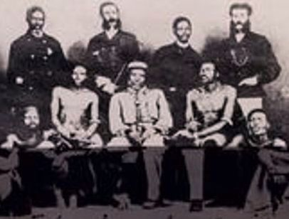 Old photograph of Chief Sarili or Kreli of the Gcaleka Xhosa together with his councillors and diplomats. 1871.